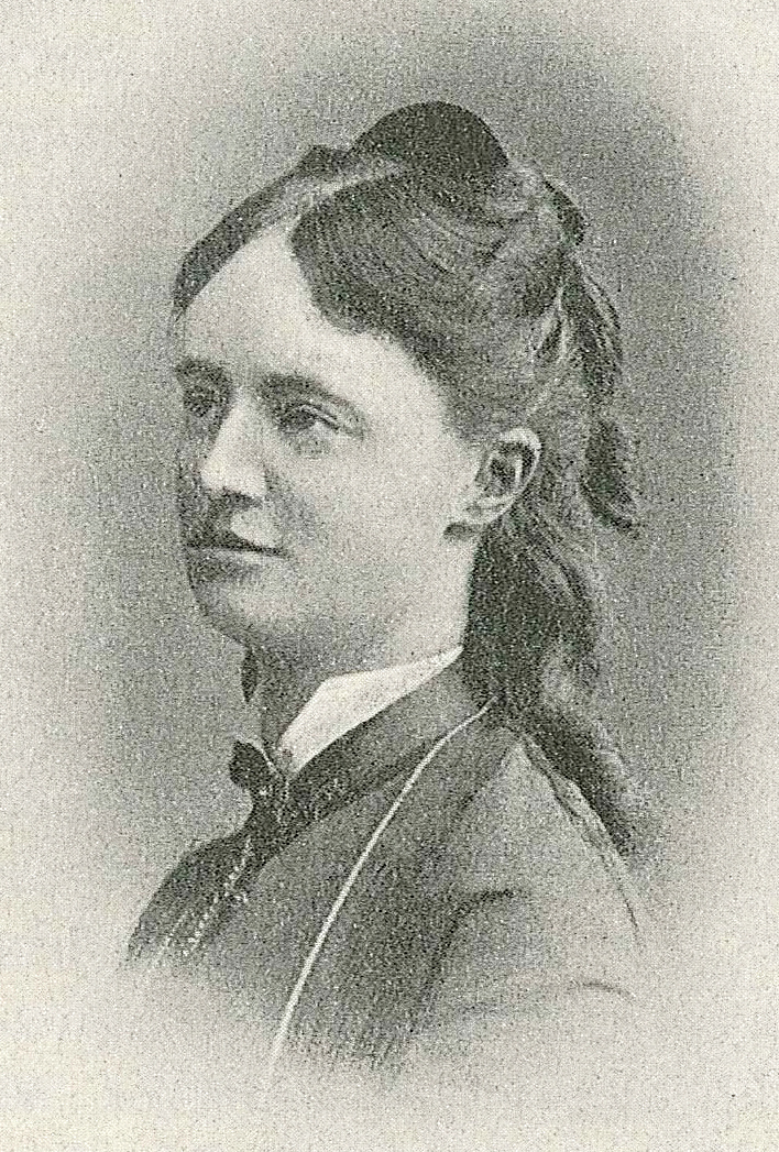 Hildegard Björck (1847-1920), Swedish medical student and the first Swedish woman to recieve an academic degree.